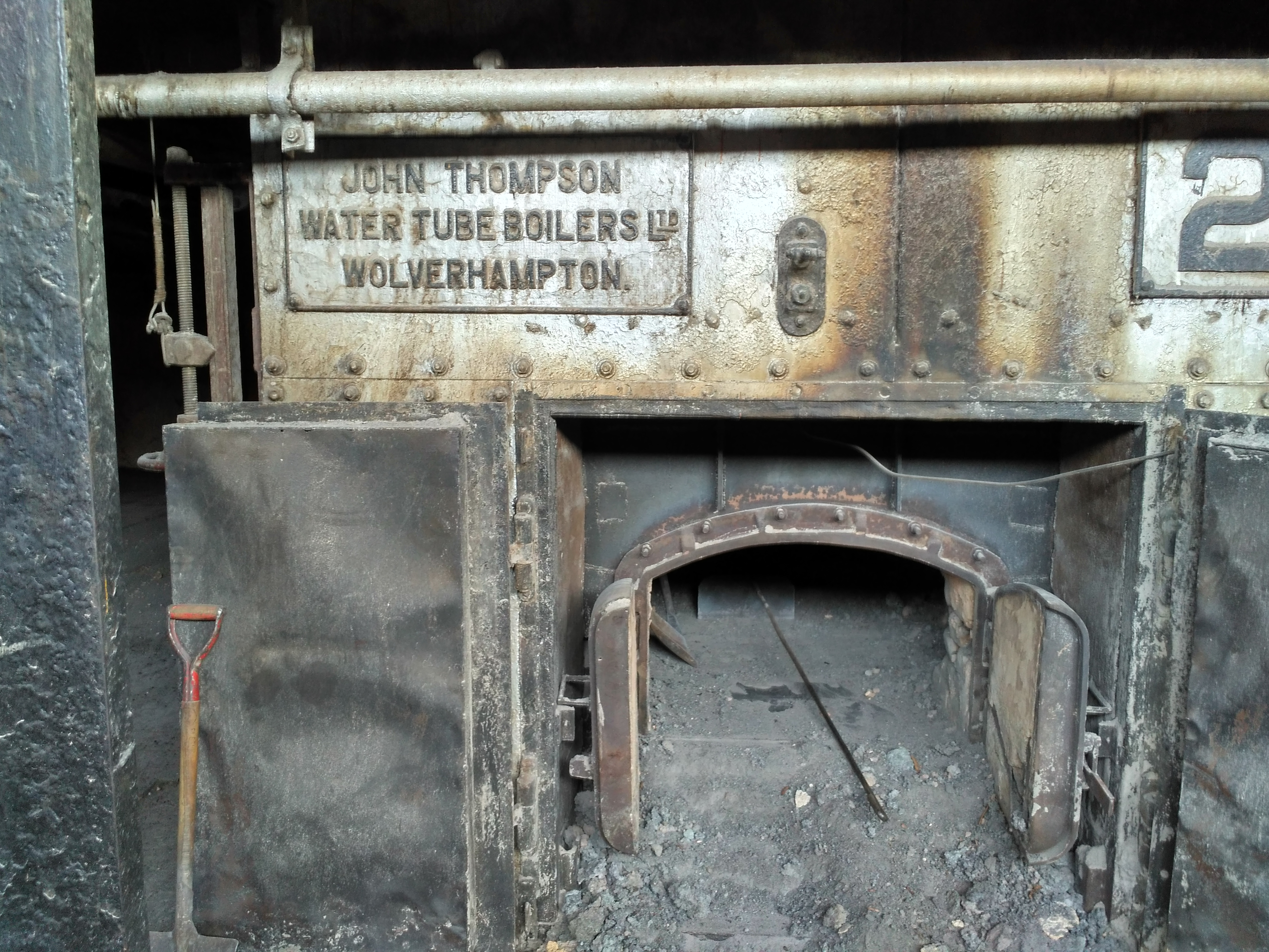 Partial view of the Mills of Thakurgaon Sugar Mills Ltd. Thakurgaon. Bangladesh. Photo of the water tube boiler. This suger mill is using water tube boiler of John Thompson Water Tube Boiler Ltd., Made in Wolverhampton, England. (02.03.2019)